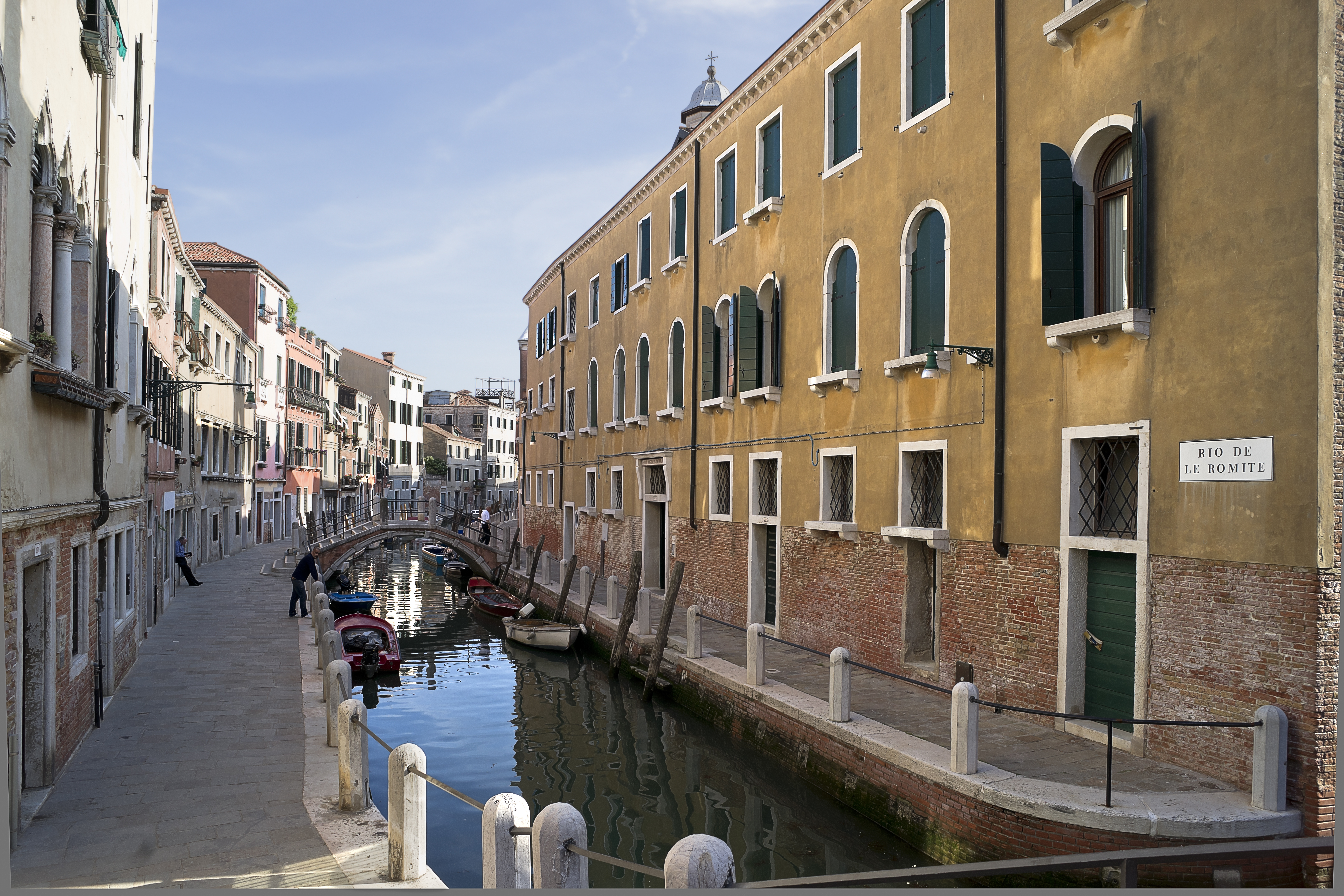 Rio delle Eremite Venice.